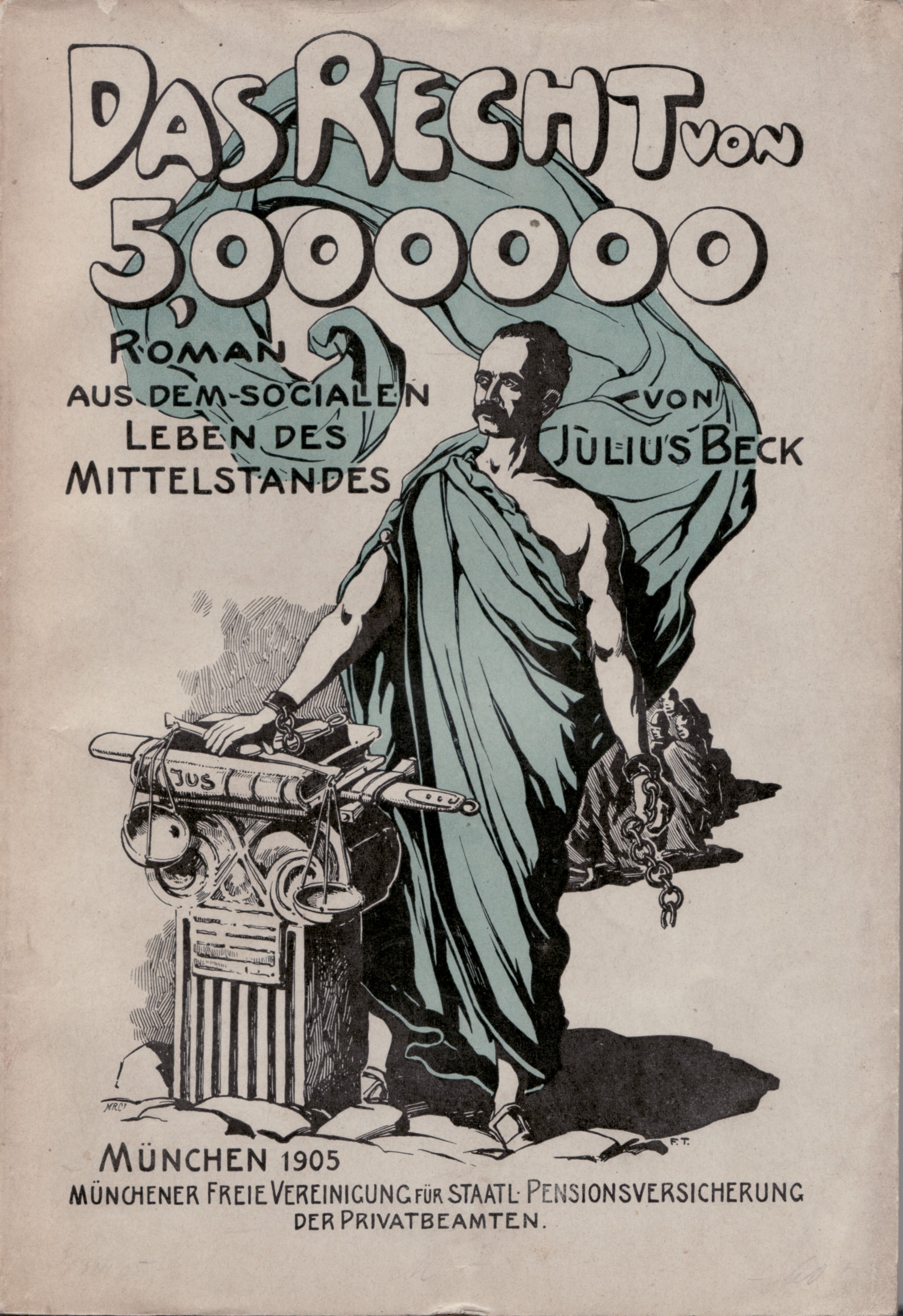 title page of novel